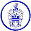 The photo is the logo of the Durham Alliance League